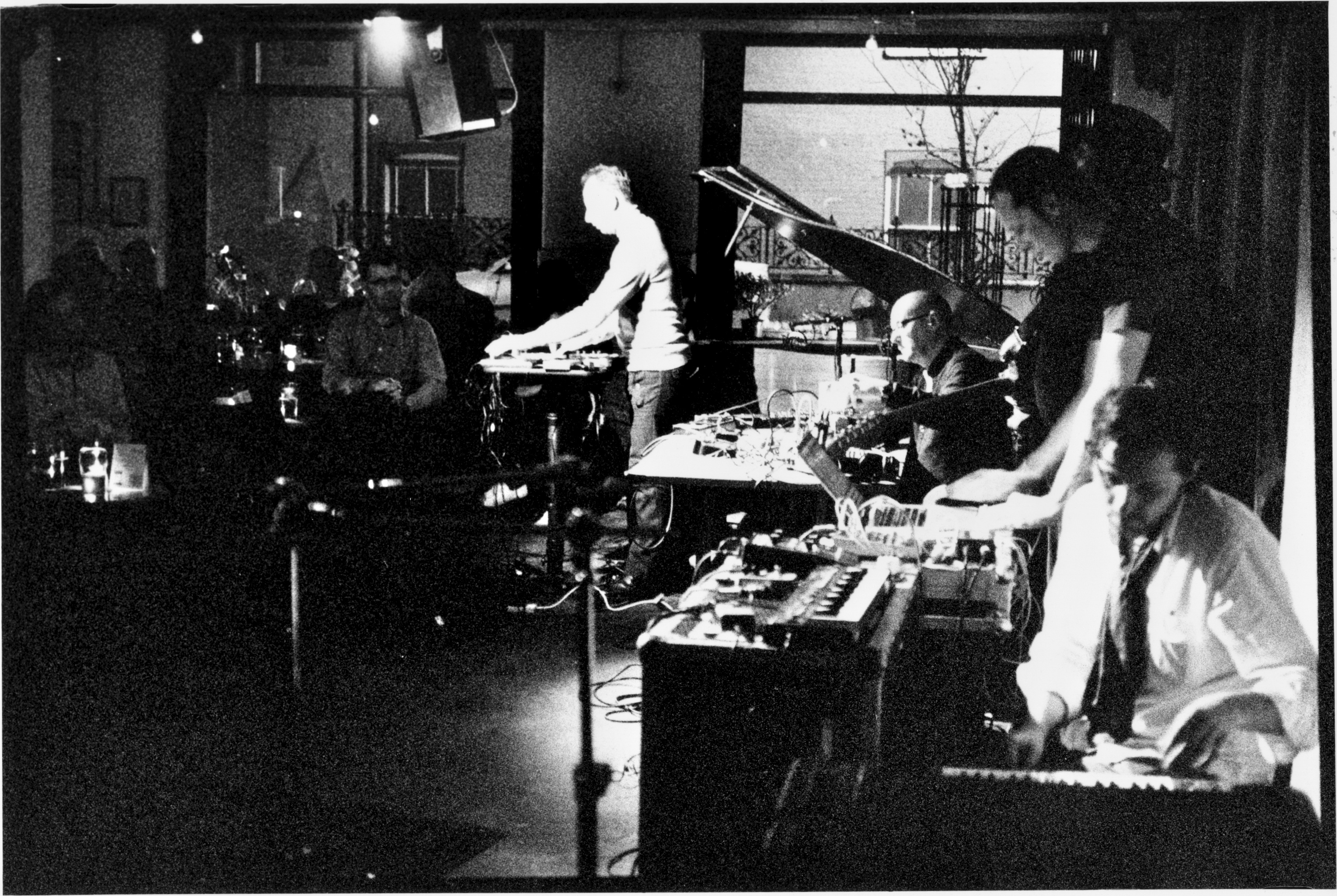 I/O3 performing at Cafe Oto.